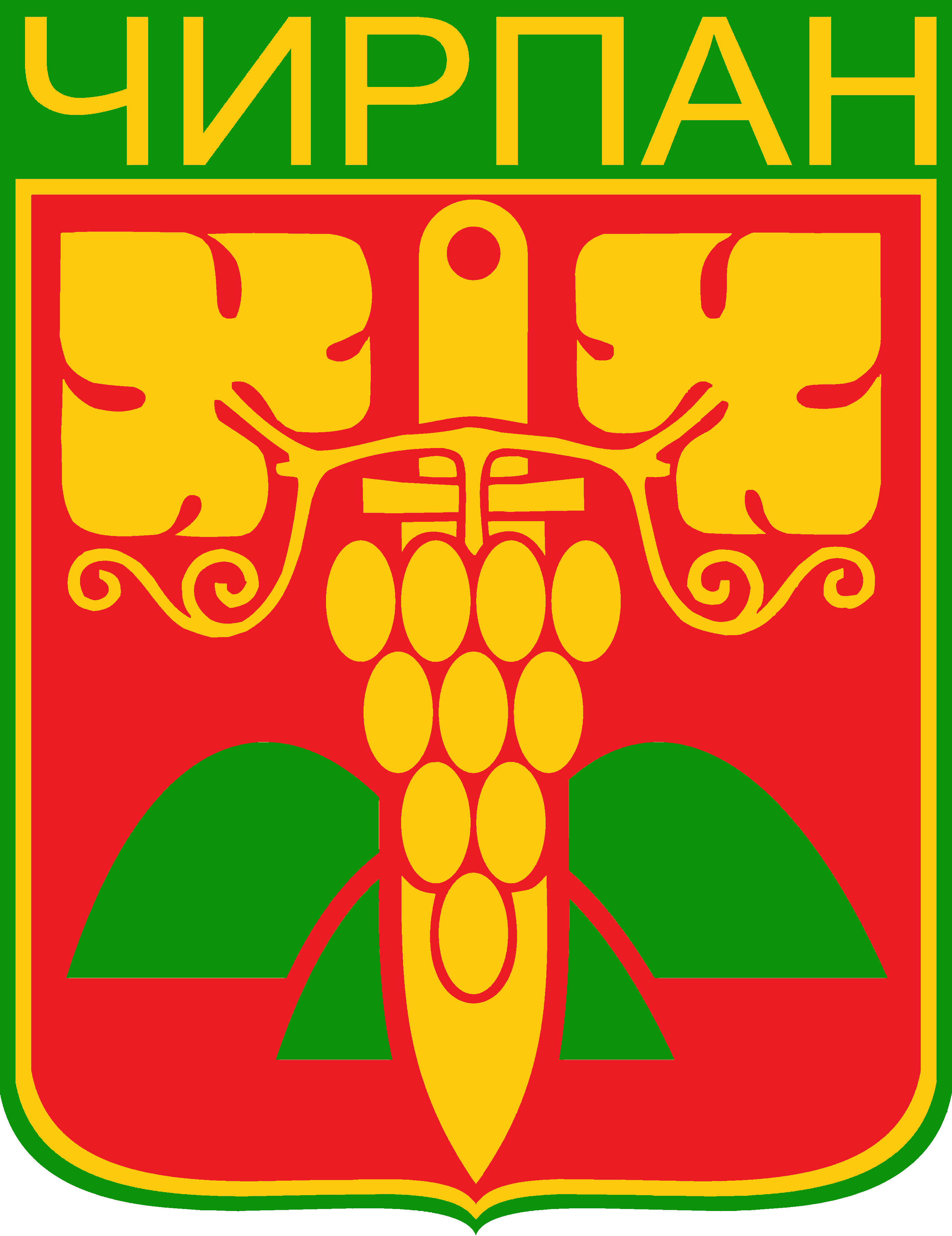 coat of arms